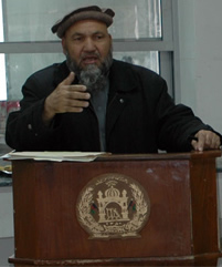 Abdullah Wardak, governor of Logar province, speaks to the newest police graduates of a winter training class during a graduation ceremony, Feb. 21, at Forward Operating Base Shank, Afghanistan.